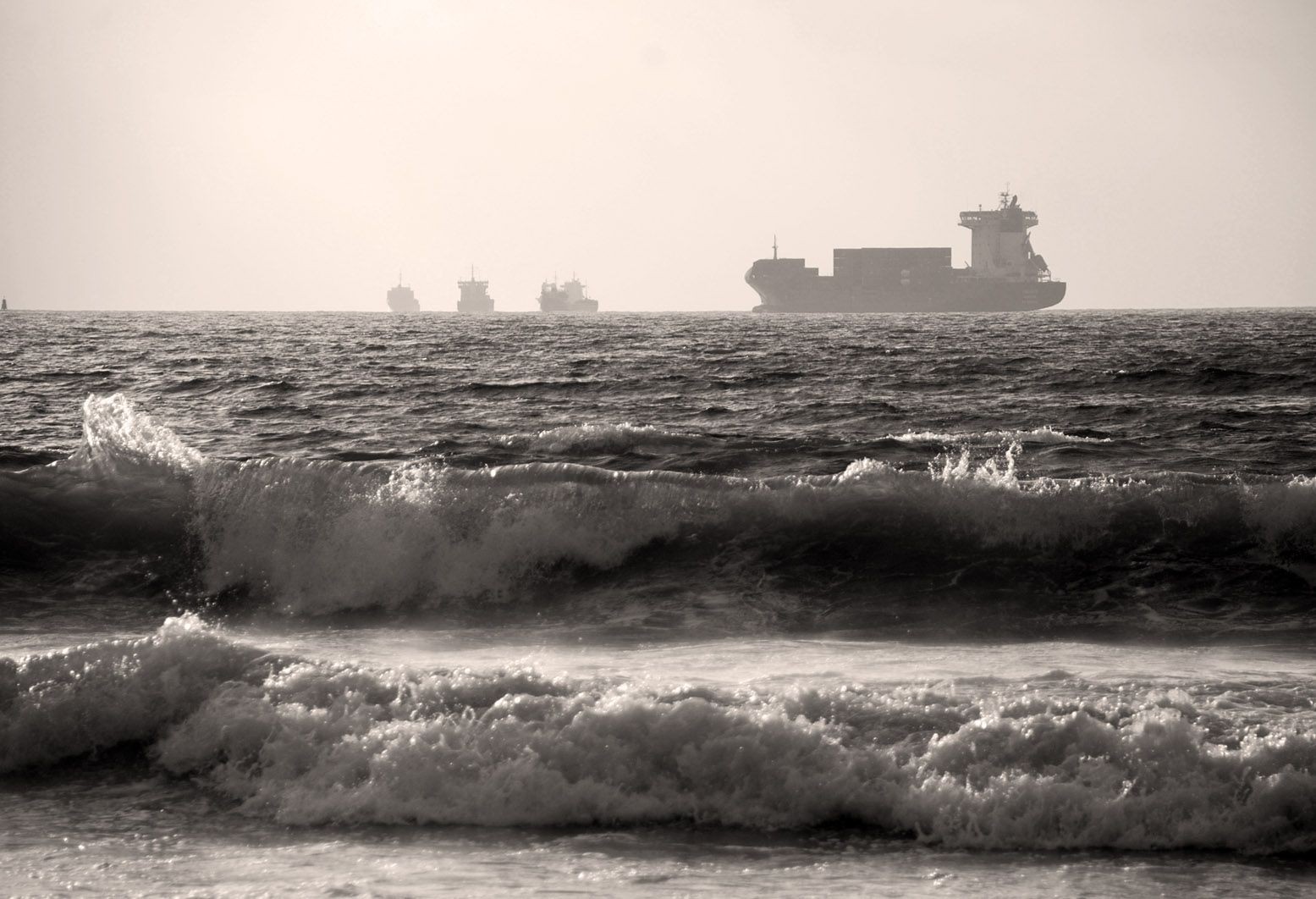 Geography of Israel